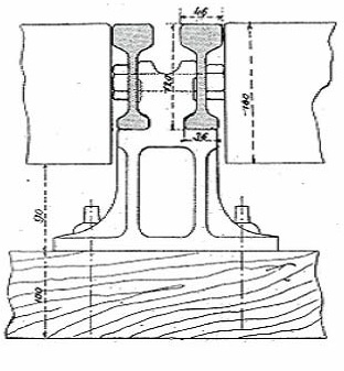 Rail Marsillon